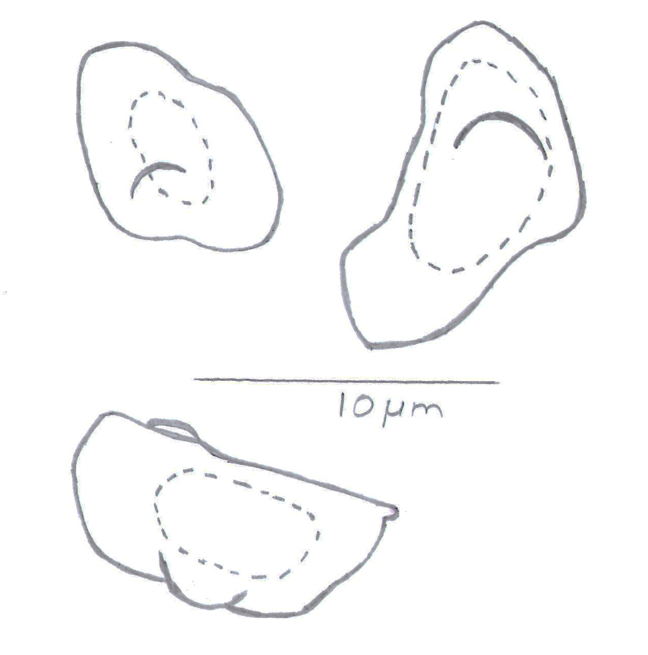 Sketch of the spores of Inocybe saliceticola. Note the distinctive irregular raised bumps.